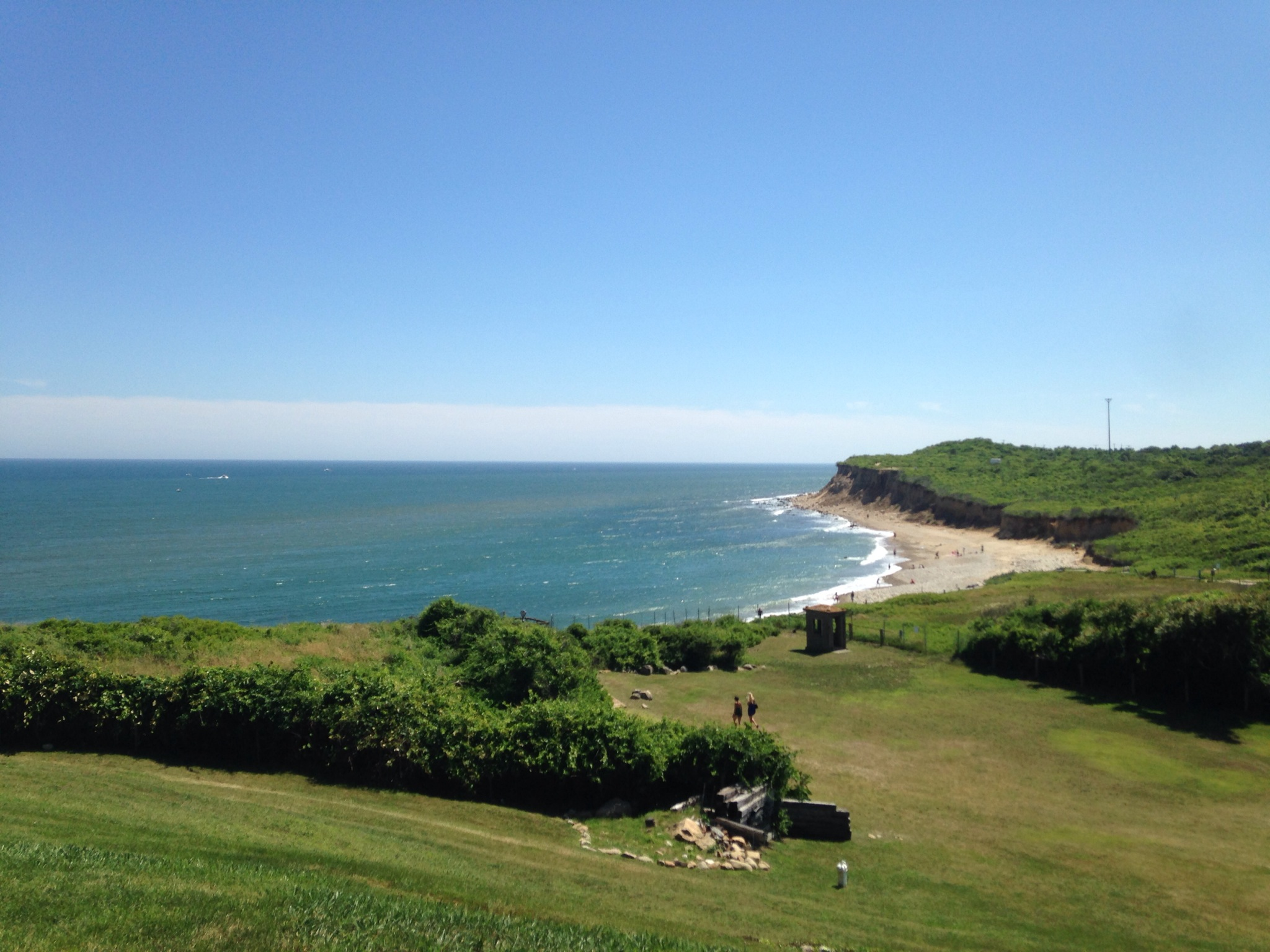 A beach in the Hampton New York